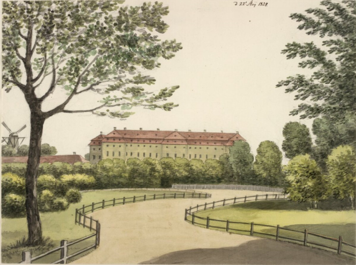 Sølvgades Kaserne set fra Rosenborg Have d. 22. May 1824